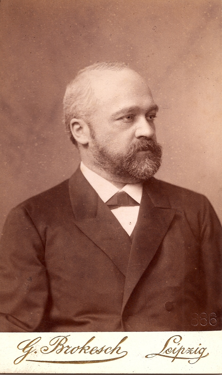 Oskar von Bülow professor of law